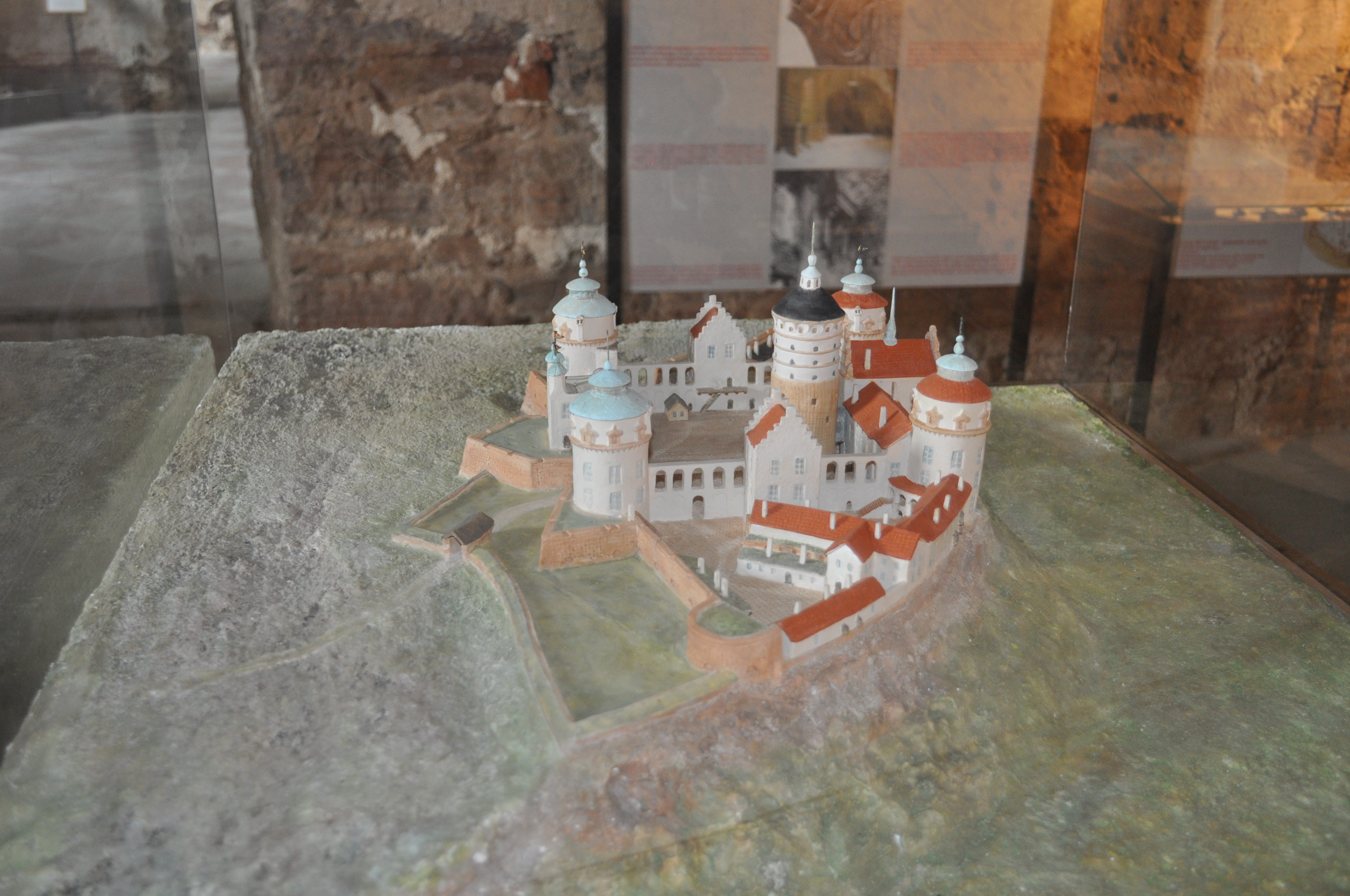 Borgholms slott, model